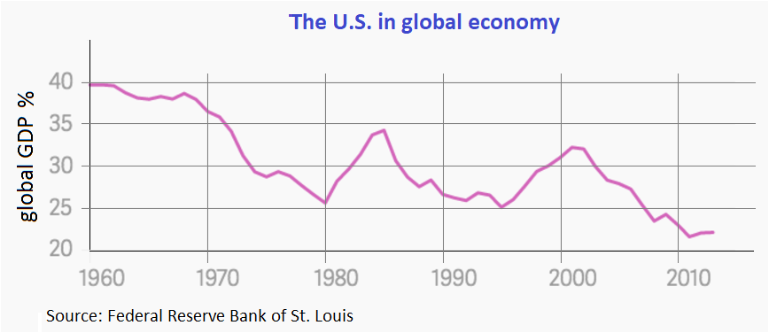 U.S. in global economy